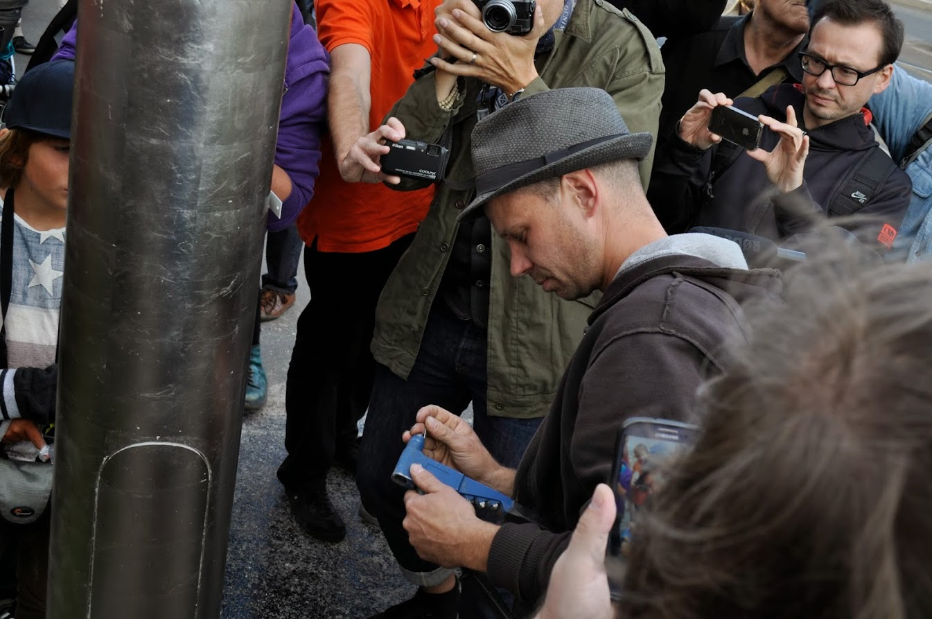 Disclosure of the monument Bike to Heaven, Prague, 2013-09-09